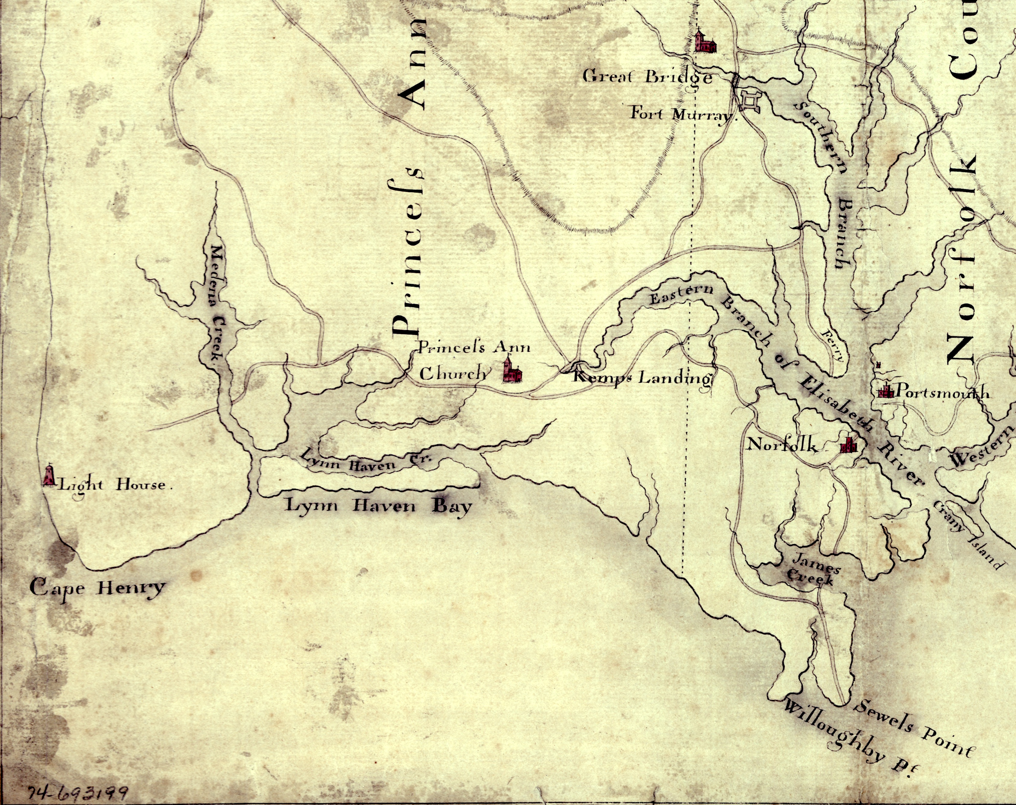 Detail of a 1780s manuscript map depicting the eastern coastal areas of Virginia, including portions of "Princess Anne" and Norfolk counties. The map is oriented with North to the bottom and South to the top. Part of the mouth of Chesapeake Bay is visible at the bottom of the map. The map depicts the sites of several military actions fought on land in the early days of the American Revolutionary War, including Battle of Kemp's Landing, Battle of Great Bridge, and the Burning of Norfolk, and the site of two sea battles of the war, the First and Second Battles of the Capes, the latter also known as Battle of the Chesapeake.